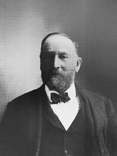 John Pulcipher of Grand Traverse County, MI